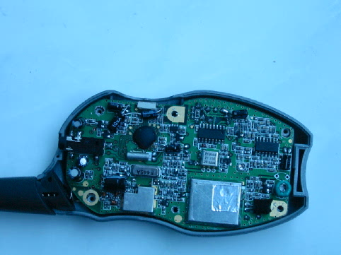 Inside of the walkie-talkie appliance. Image created by User:Eleassar777.